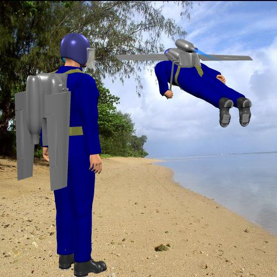 A possible design for a jetpack with folding wings.